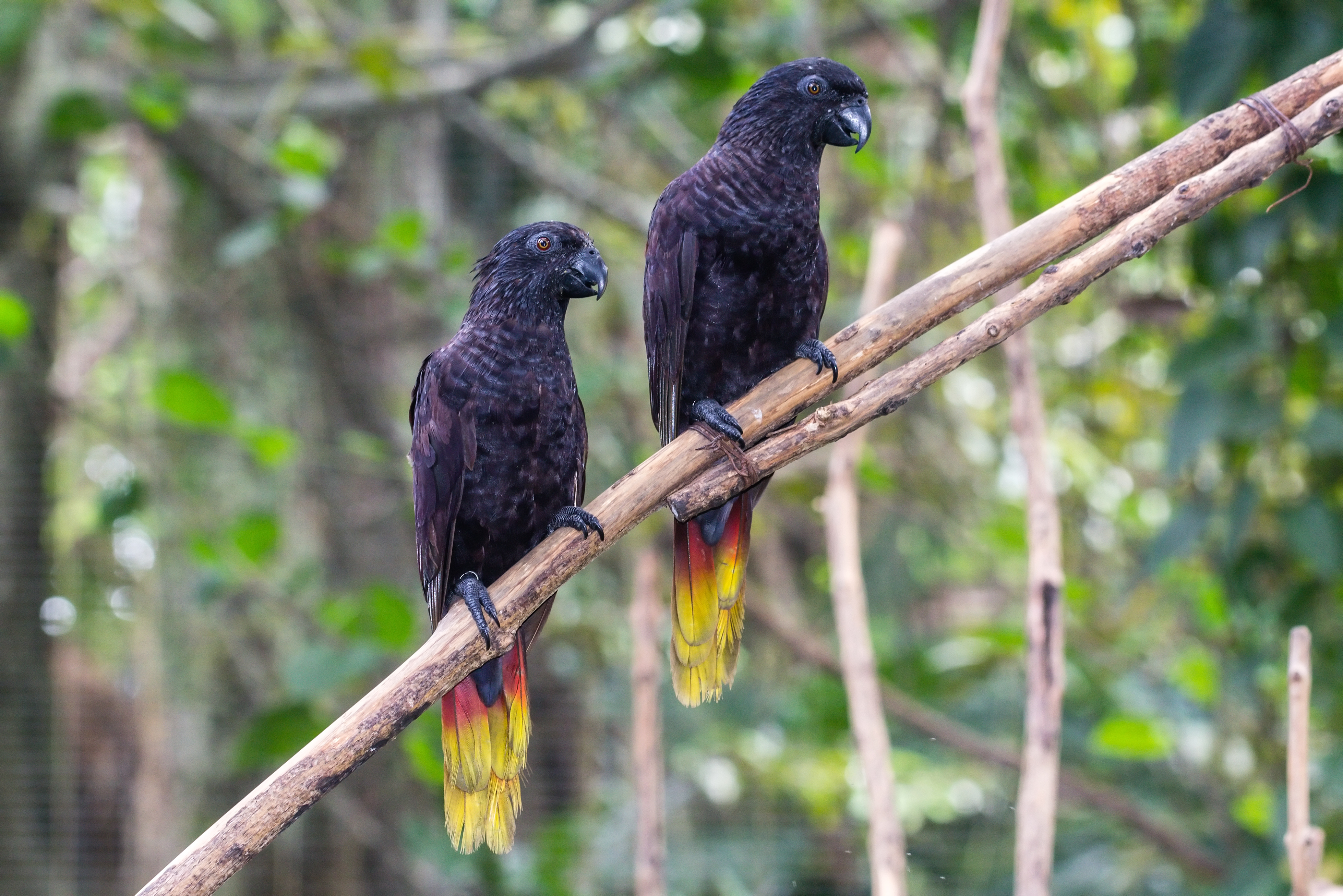 Black lory (Chalcopsitta atra), Gembira Loka Zoo, Yogyakarta 2015-03-15